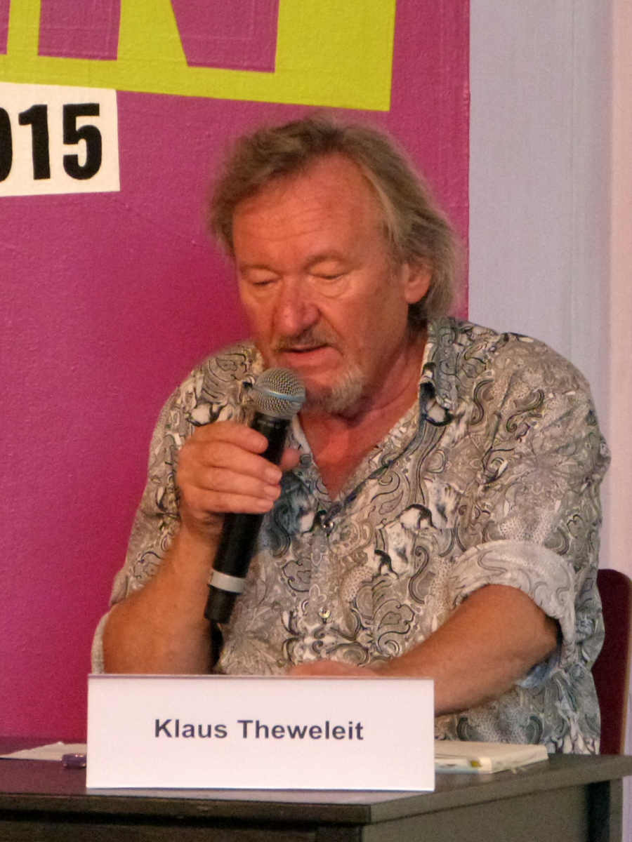 German sociologist and writer Klaus Theweleit at the Erlanger Poetenfest 2015